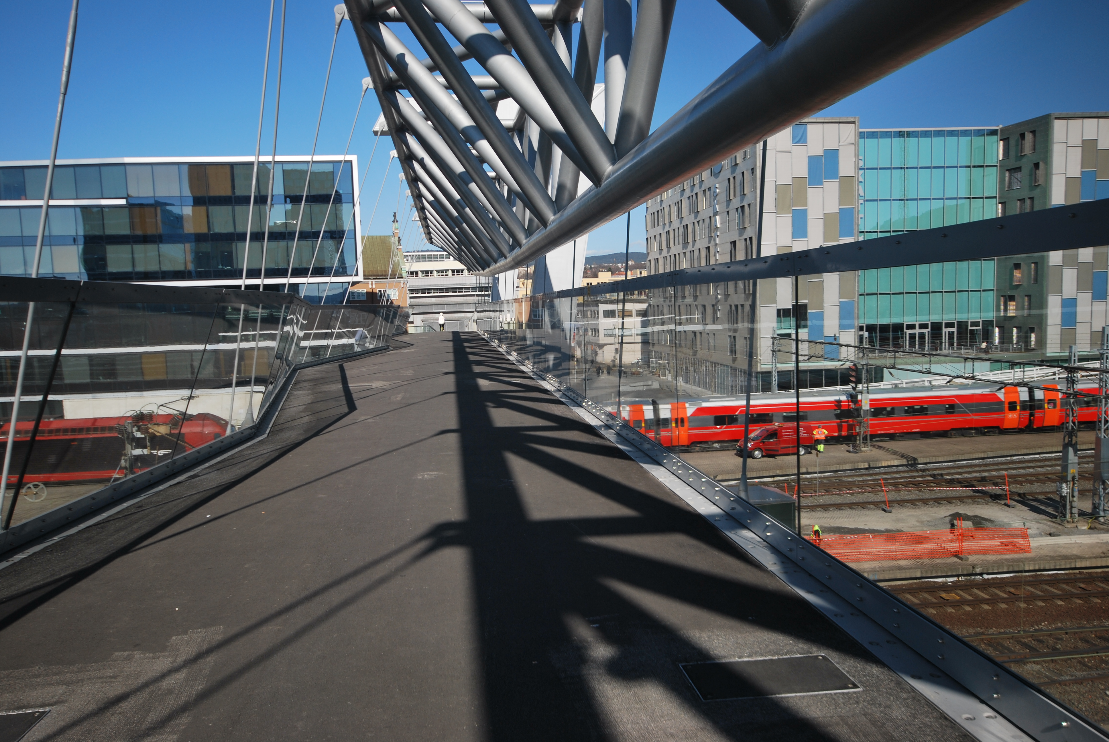 Pedestrian bridge in Oslo, opened in April 2011 as part of the new street Stasjonsallmenningen, from Barcode, Bjørvika to Annette Thommessens Square (plass) in Grønland. The bridge is named Akrobaten and crosses Oslo Central Station (Oslo sentralstasjon).